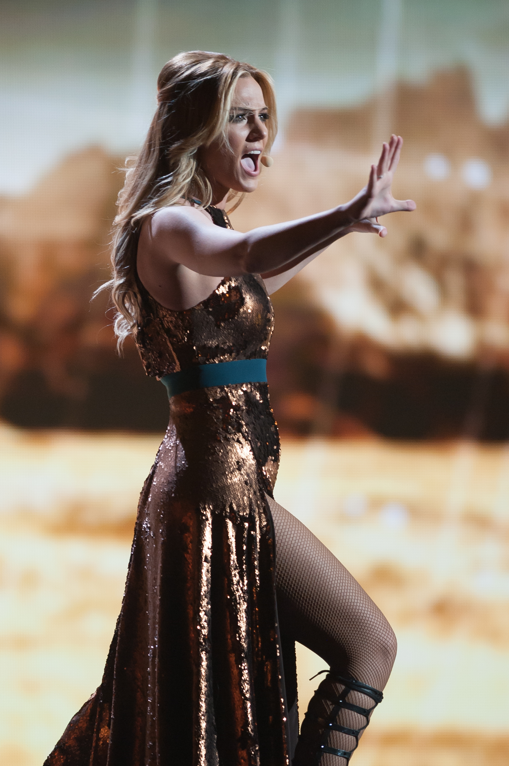 Eurovision Song Contest Vienna 2015: Edurne